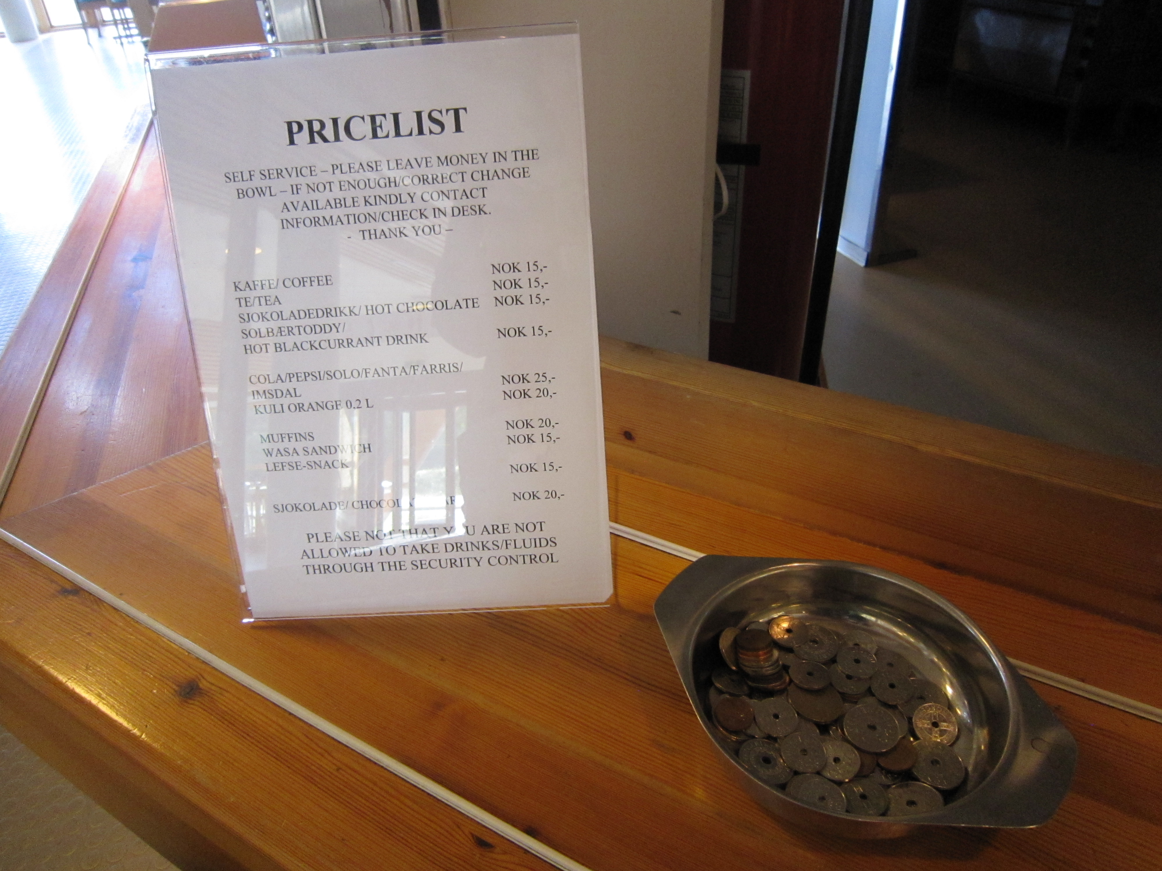 Self-serve cafe at Fagernes Airport, Leirin